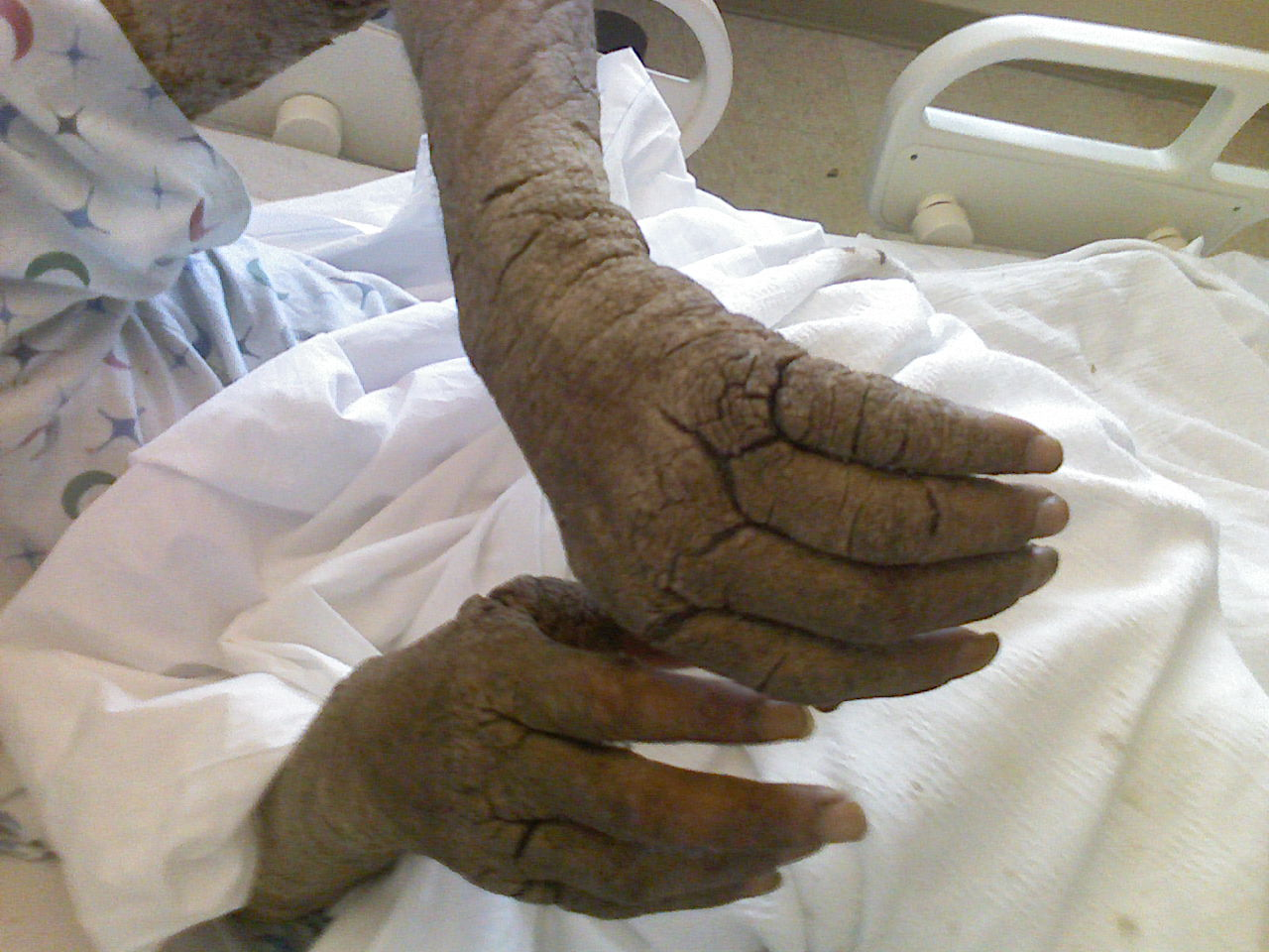 Photo of AIDS Patient with crusted Scabies. Patient reported it took 6 months for this to develop after an initial "itch"